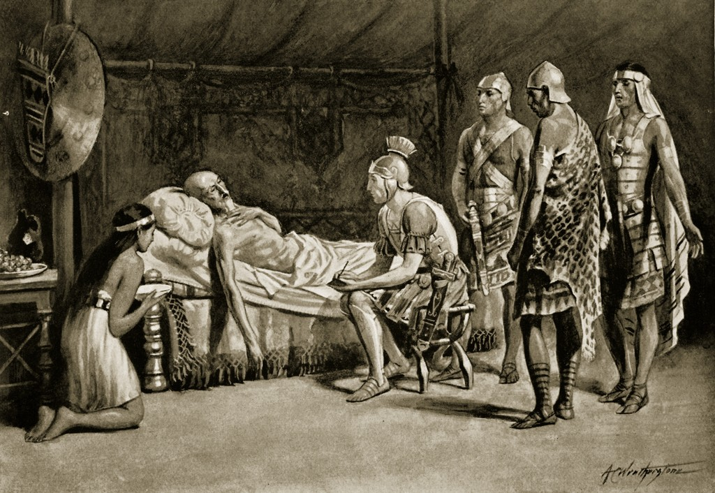 Masinissa, the king of Numidia (c.240 – 148 B.C), died in 148 B.C., still at odds with the Roman governement; He honoured Scipio Aemilianus (185 – 129 BC), who was present at his death, by asking him to divide the kingdom between Masinissa's three sons